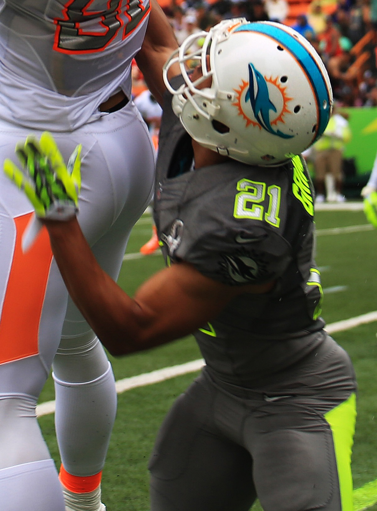 Miami Dolphins cornerback Brent Grimes in 2014 Pro Bowl